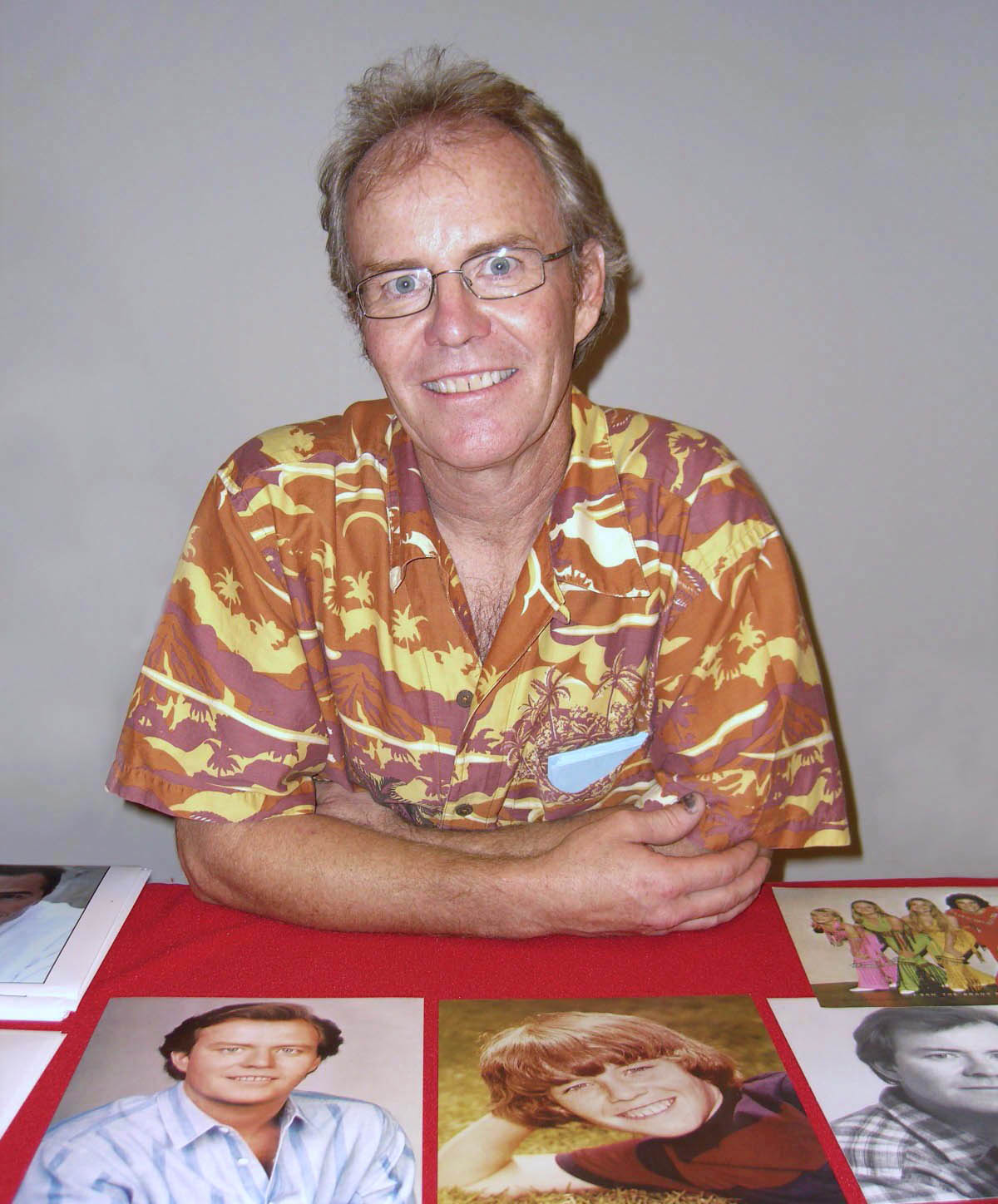 Actor Mike Lookinland at the Big Apple Convention in Manhattan, October 1, 2010. Photo by Luigi Novi. This photo may be used, modified and published for any purpose, only if a easily visible credit to the photographer is placed near the photo in each instance in which it is used. (See licensing information below.) Publication of this photo without this proper attribution constitutes copyright infringement. For more information on my photos, you can contact me here.